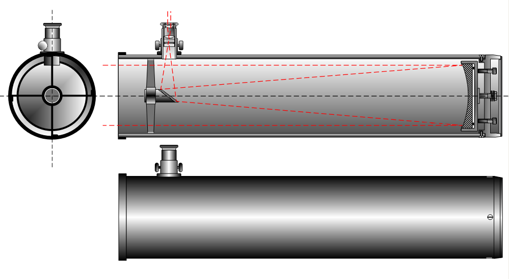 Newtonian telescope design.